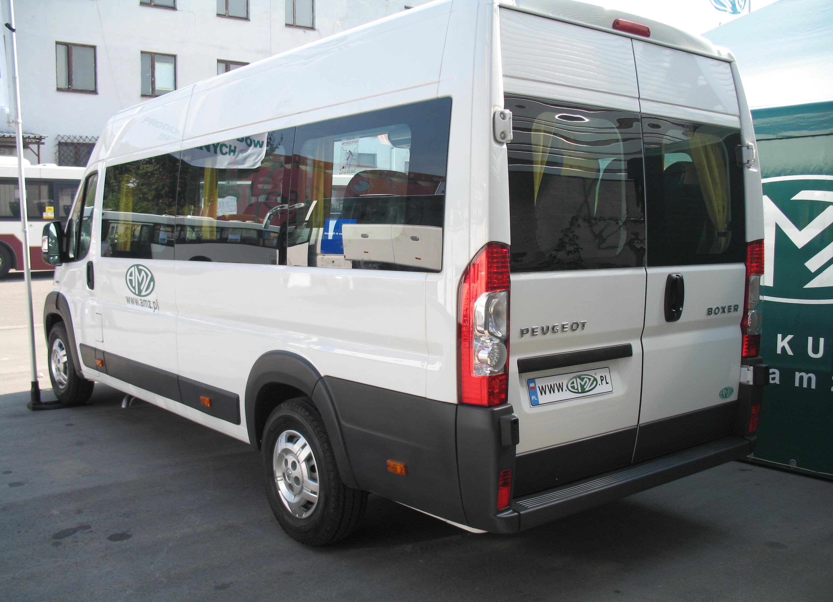 AMZ Peugeot Boxer HDi 3.0 minibus in Kielce, Poland. Transexpo 2009.